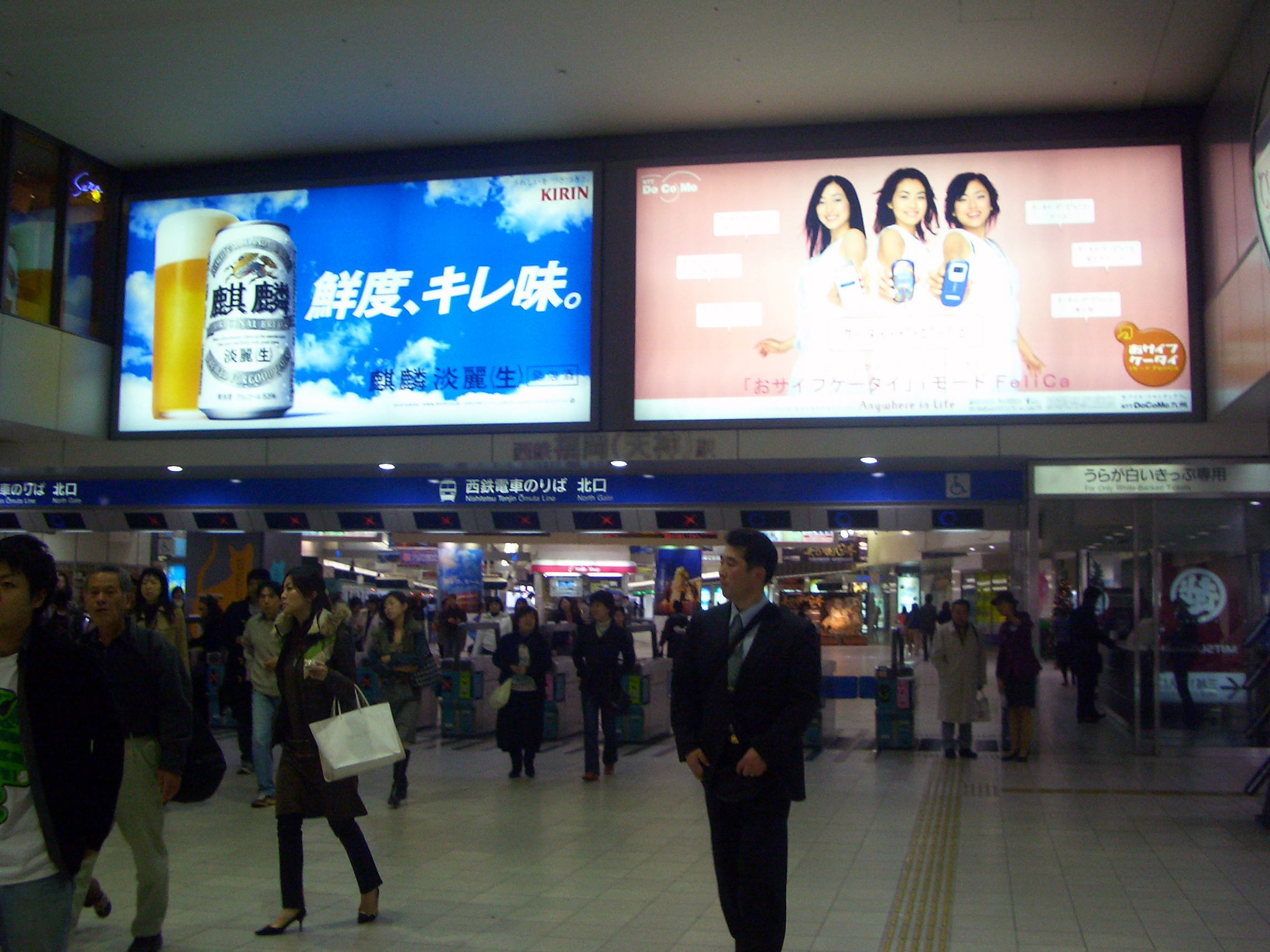 Nishitetsu Fukuoka (Tenjin) Station in Fukuoka, Japan